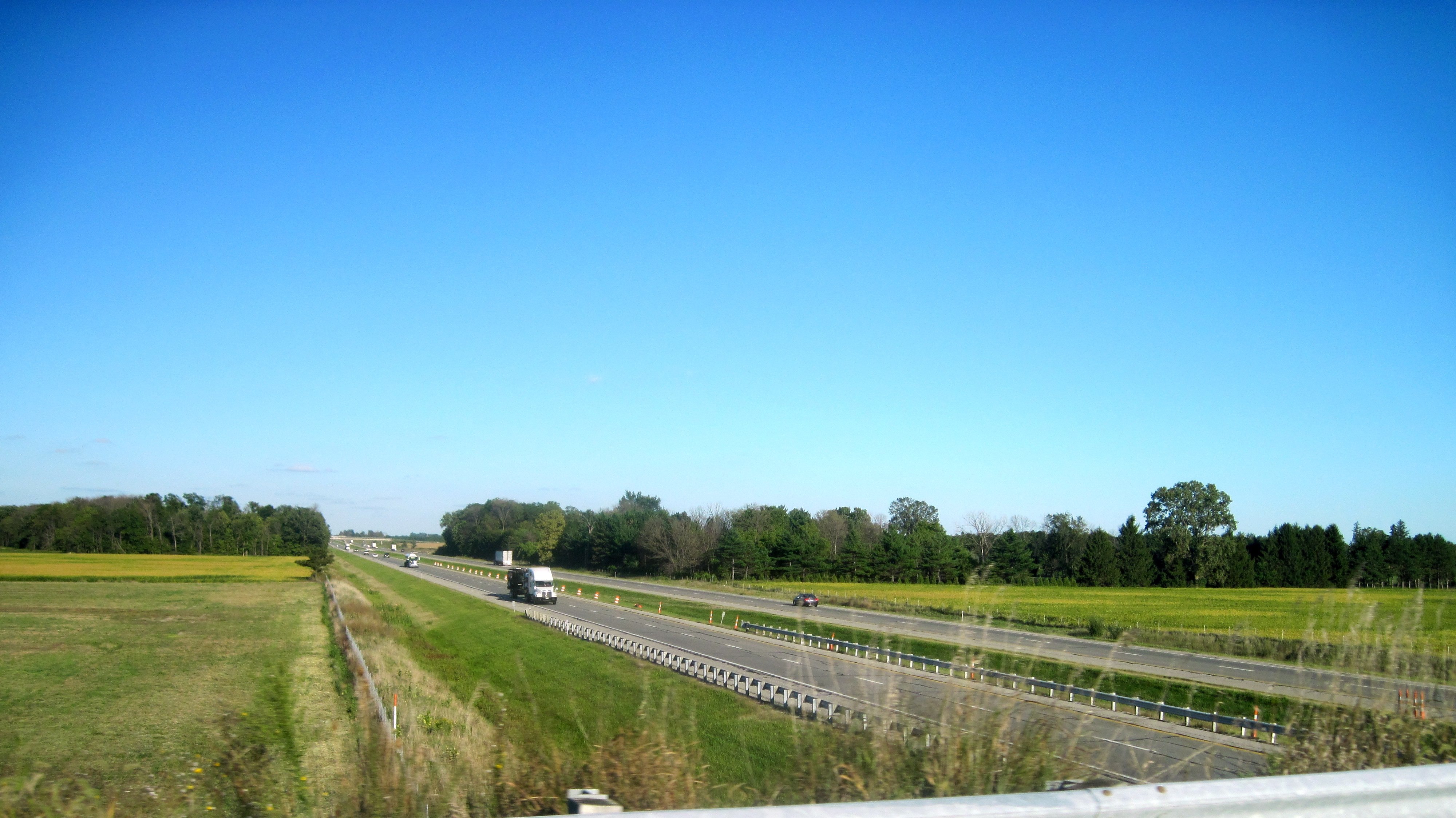 Turnpike overpass in Dover Township, Fulton County, Ohio